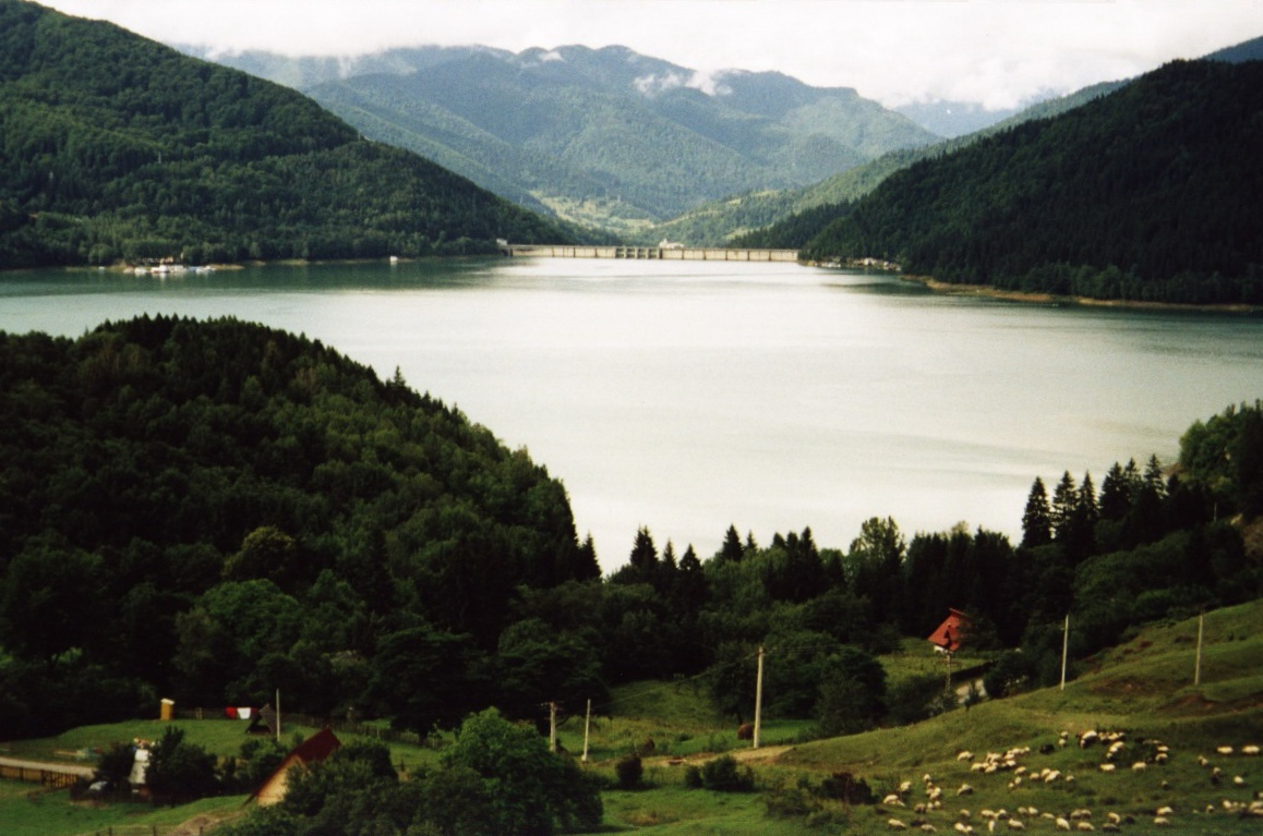 Bicaz Lake and Dam, Romania